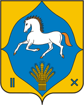 Ilishevo rayon (Bashkortostan), coat of arms